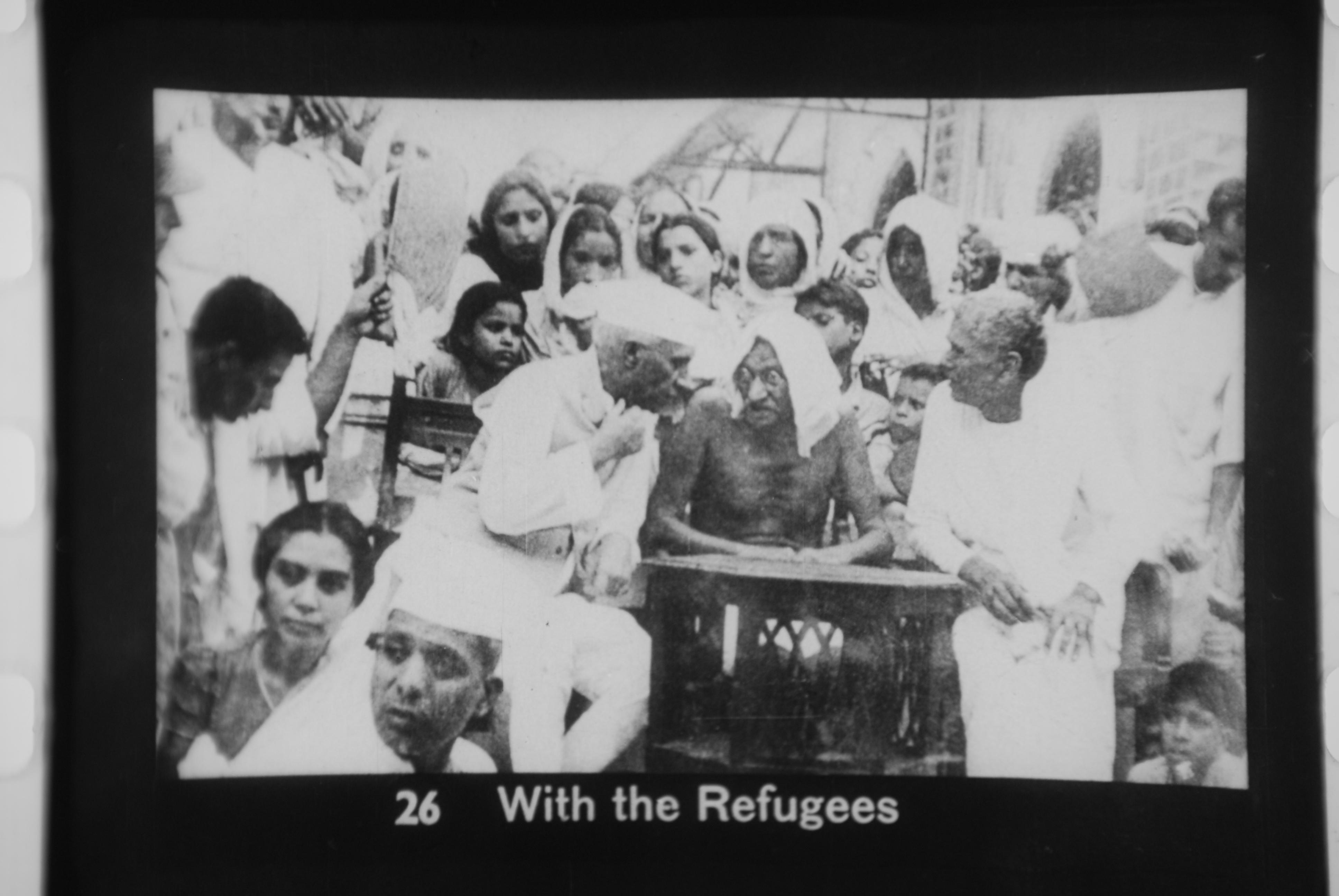 Gandhi and Nehru and refugees from the partition